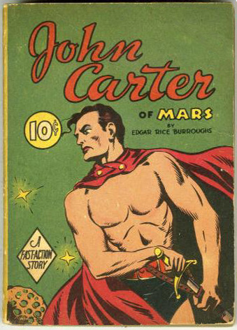 Cover of Big Little Book John Carter of Mars (Dell, 1940)